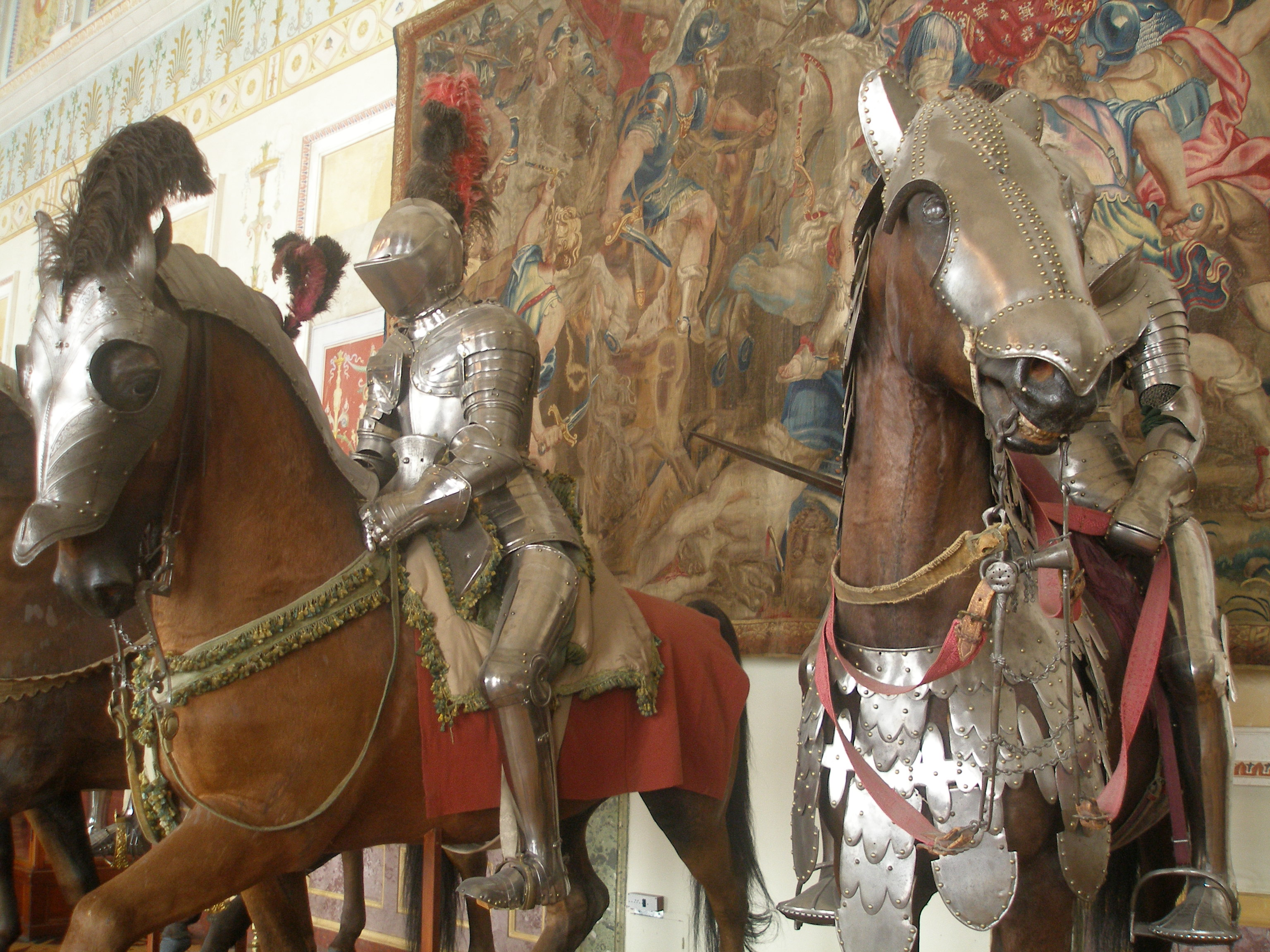 Mailed knights at Hermitage museum (St.-Petersburg, Russia)